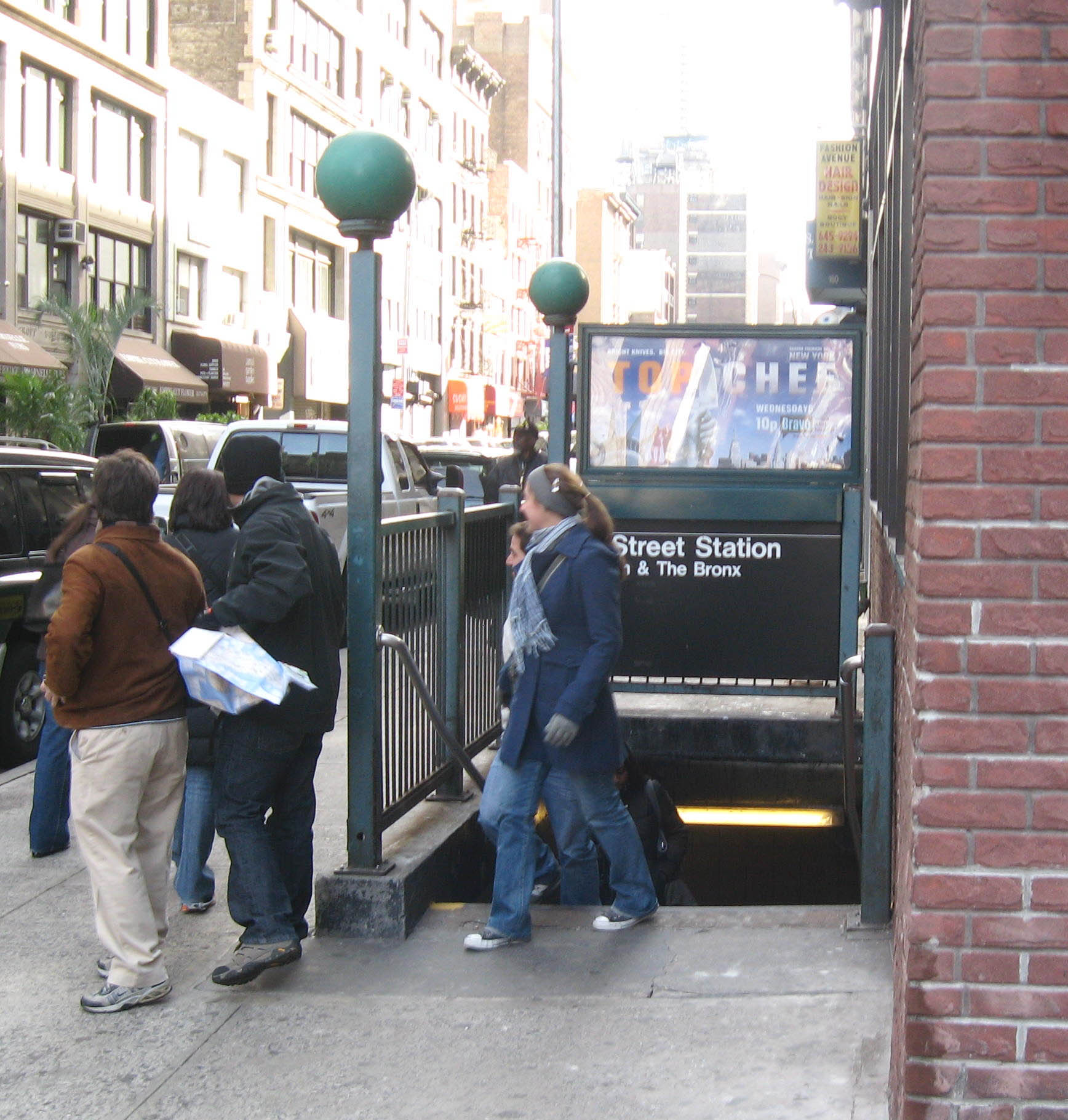 Loking east at en:28th Street (IRT Broadway–Seventh Avenue Line) street stair on a sunny late morning